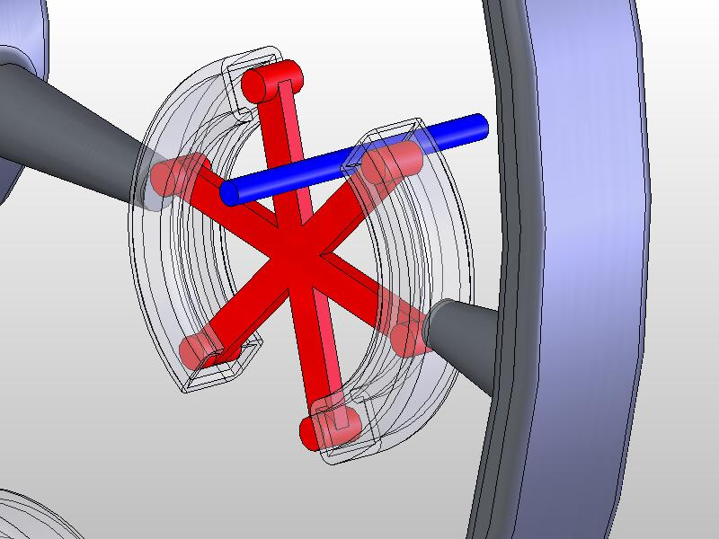 3D model of a wheel equiped with a "shaftpasser" mechanism as described in Richard Feynmann's book "You must be Joking, Mr. Feynmann"